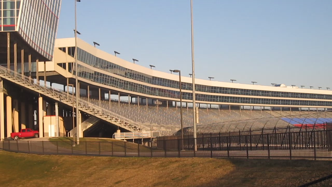 I took photo at Texas Motor Speedway with Canon camera.